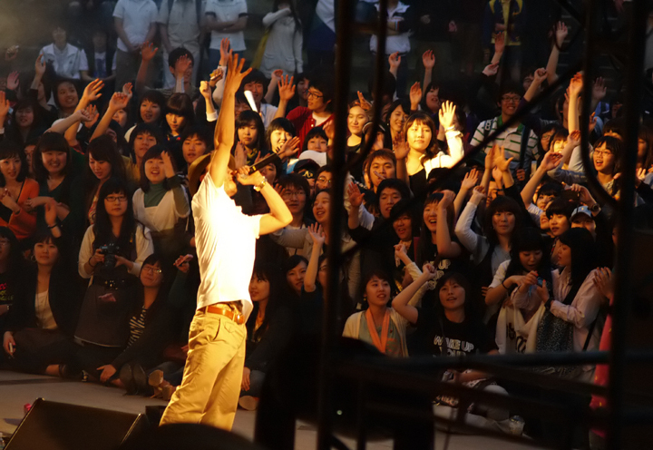 Rachios : Spring festival in Hanyang University